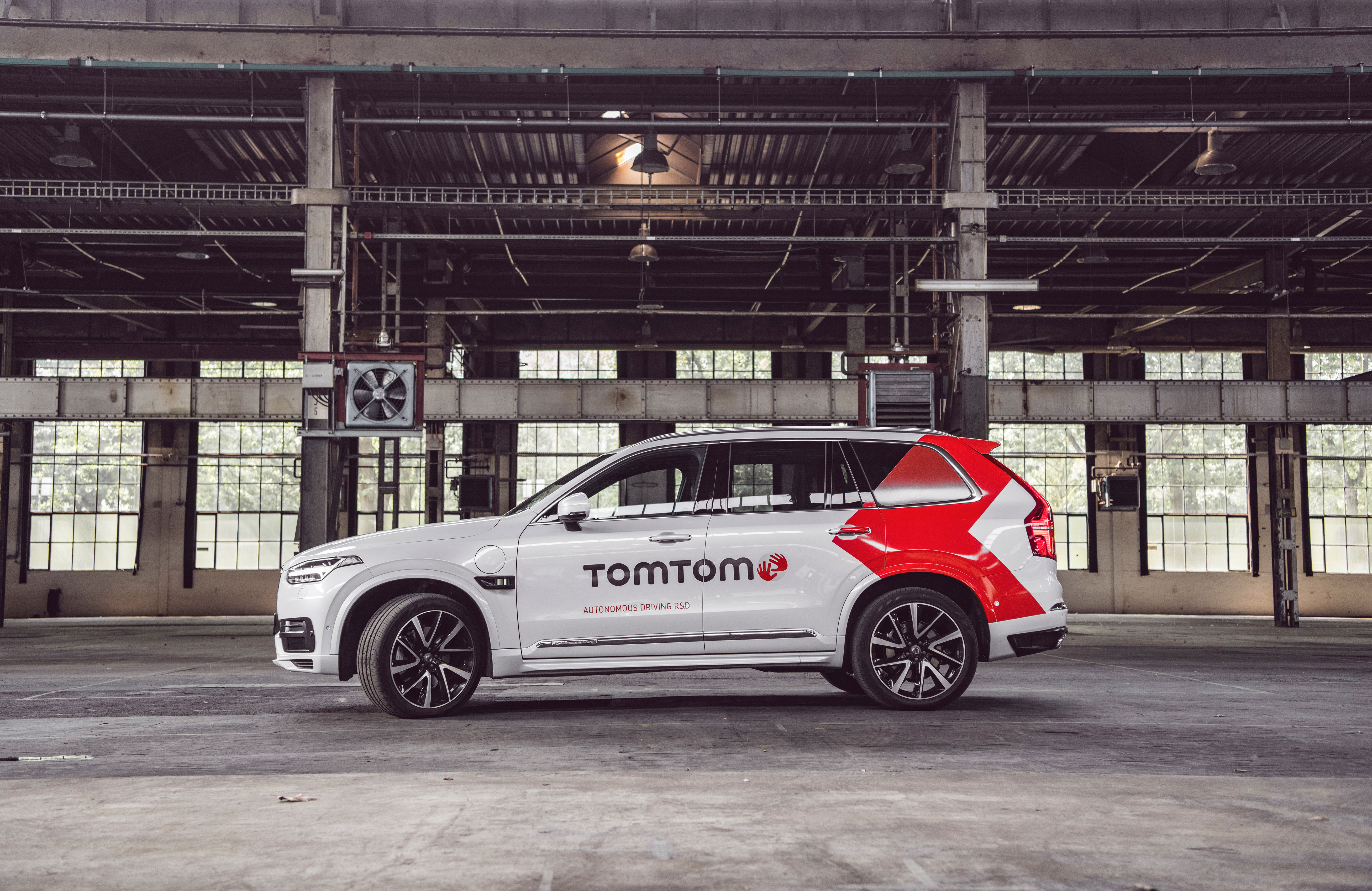 Trillian